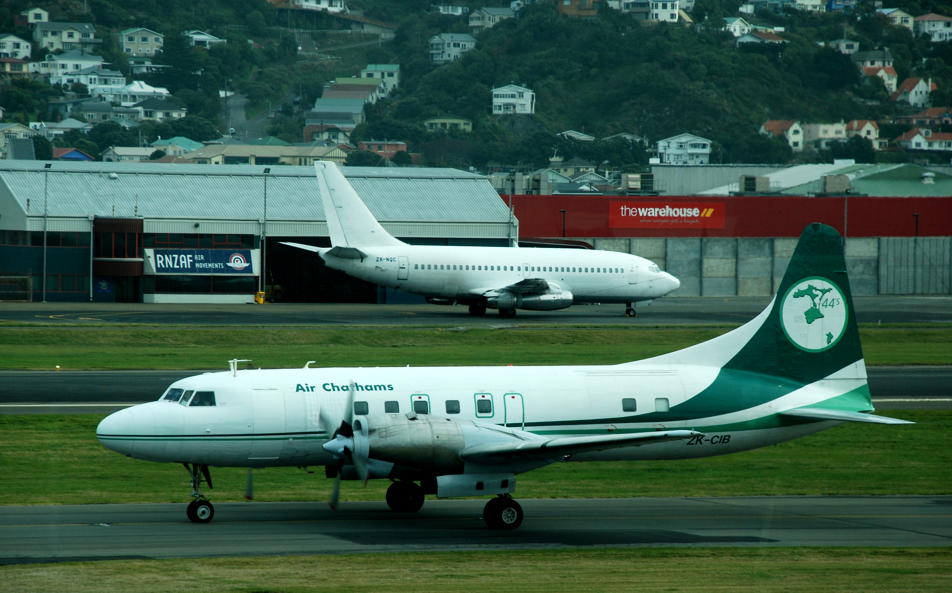 Convair 580 of Air Chathams at Wellington International Airport